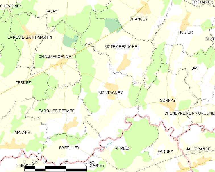 Map of French municipality